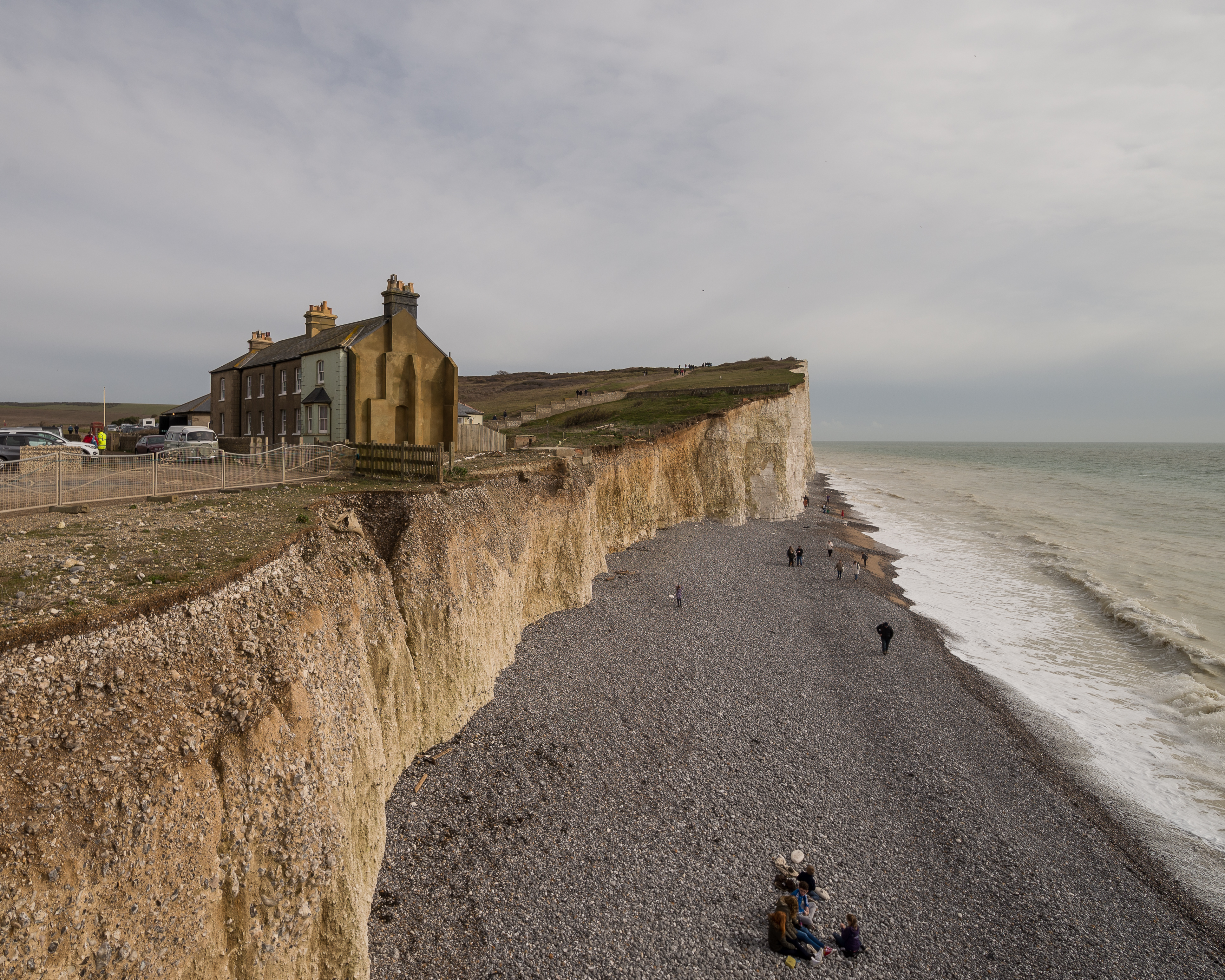 The beach in Birling Gap, East Sussex.